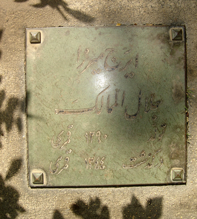 Iraj Mirza's tombstone in Darband, Shemiran, Tehran.